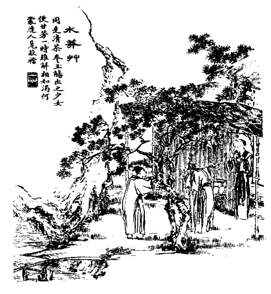 19th-century illustration of a scene from the short story "The Shuimang Herb" collected in Strange Tales from a Chinese Studio (1740).